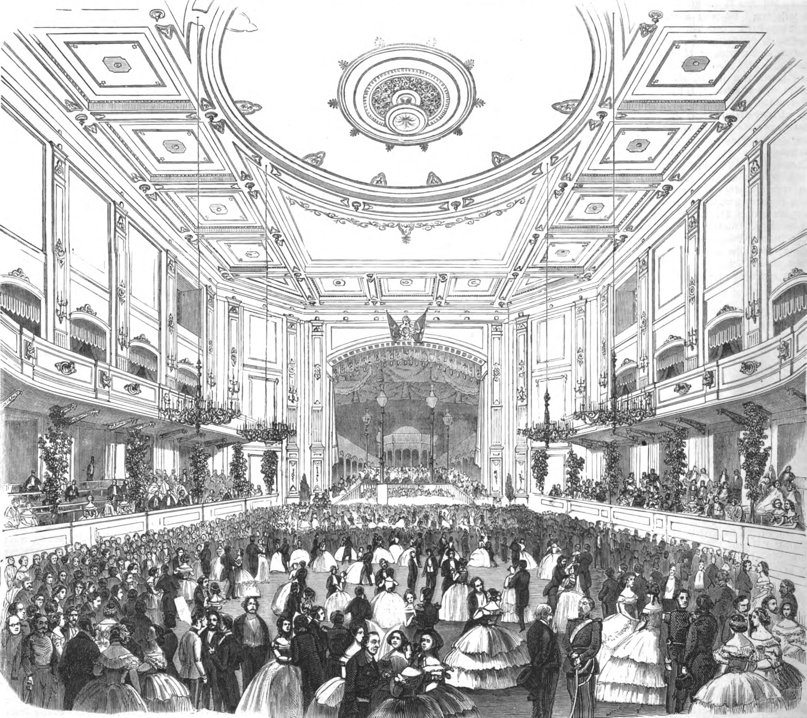 Ball inyjr Casino Theater in Copenhagen, Denmark. Illustration from Illustreret Tidende.